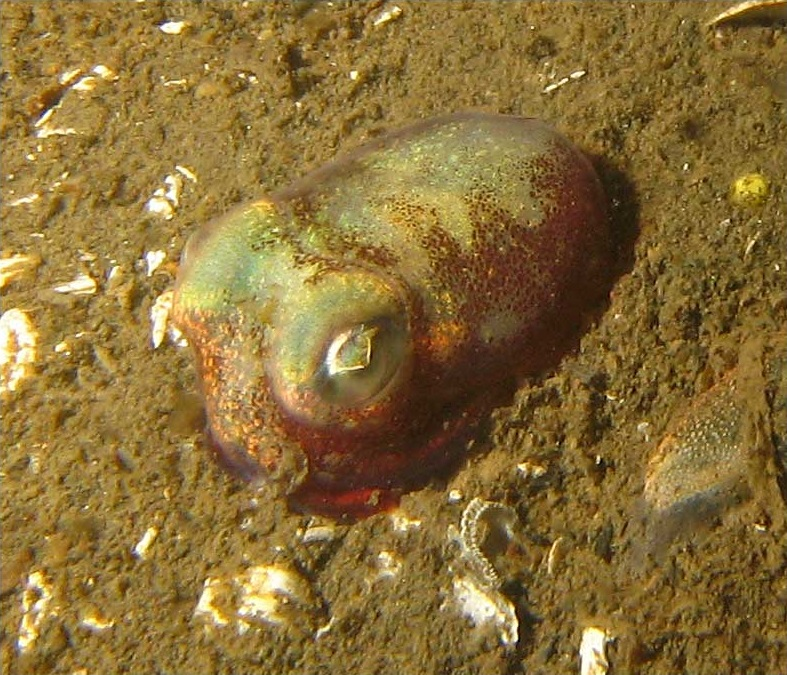 Stubby Squid at Alki cove 2 (west seattle). These small squid are usually seen at night. They look like tiny octopus except that they have small "wings".